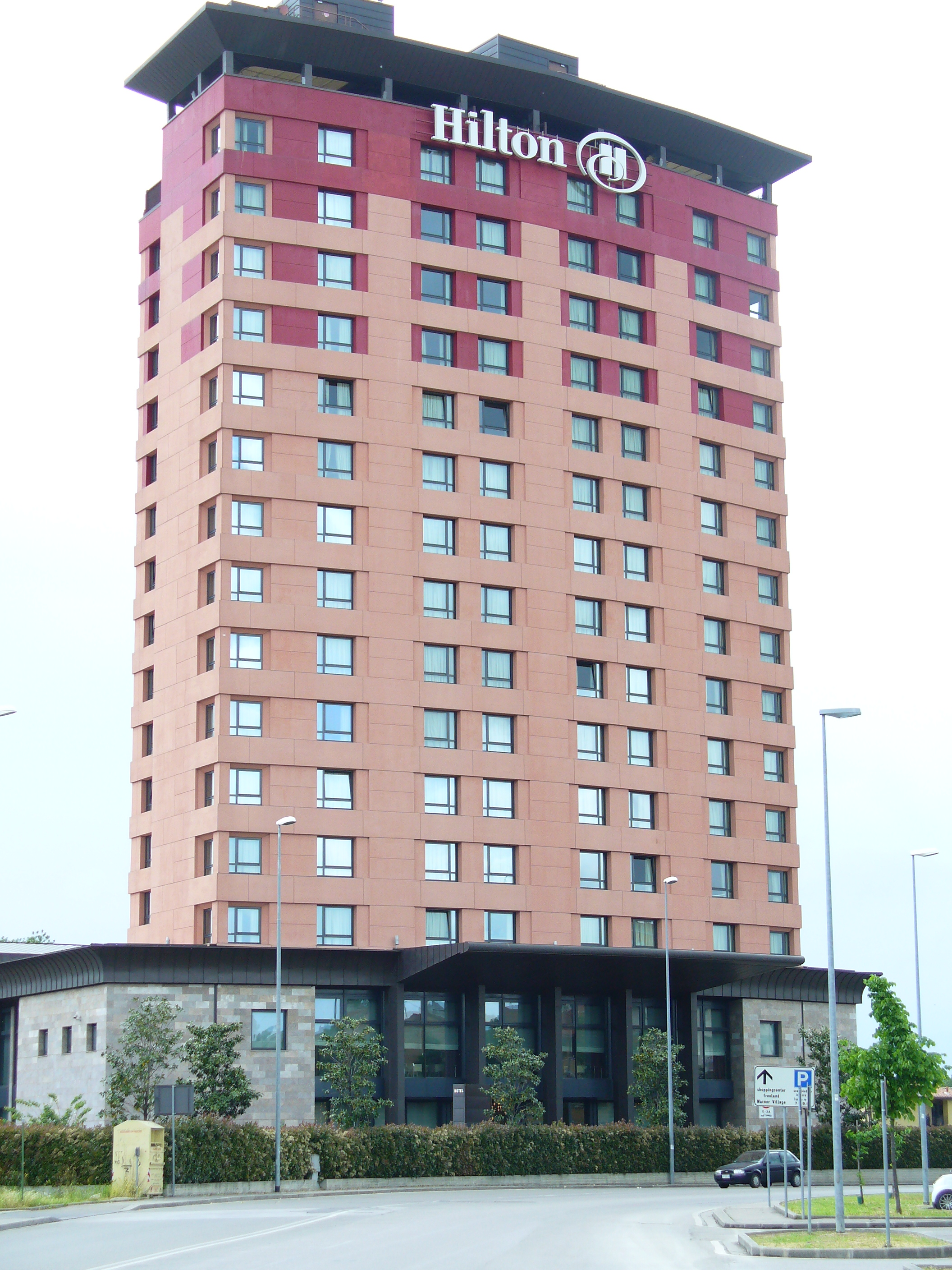 Hilton Florence Metropole